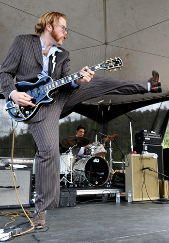 Christoffer "Kid" Andersen performing with Rick Estrin and the Nightcats at the 2009 Coloma Blues Live! festival.